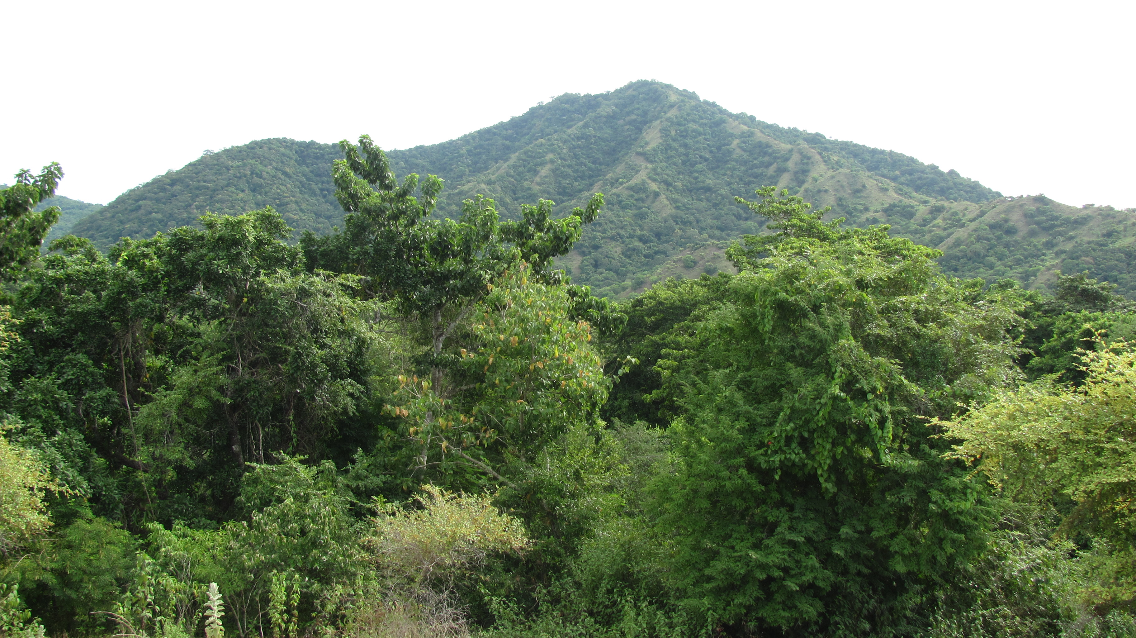 Typical landscape in the interior of Komodo Island,Indonesia